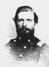 Union Officers in the Civil War